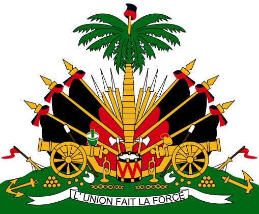 The coat of arms of Haiti from the Duvalier era, as seen on the old flag (File:Haiti-coat-of-arms.svg).